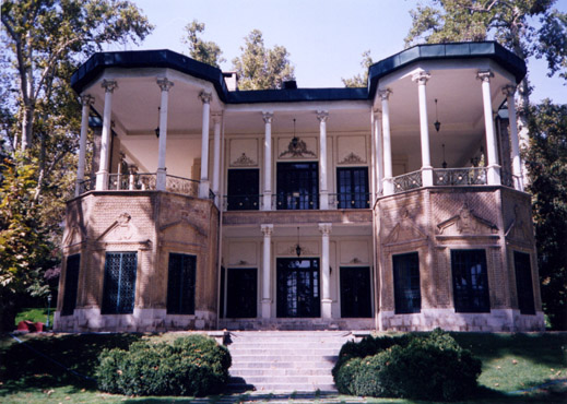 "Kushak e Ahmad e Qajar" — the Ahmad-Shahi Pavilion located north of the Saabgheranieh Palace in the Niavaran Palace gardens, Tehran, Iran.